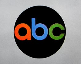 A logo employed by the American Broadcasting Company (ABC) when it first broadcast programming in color in the 1960s.